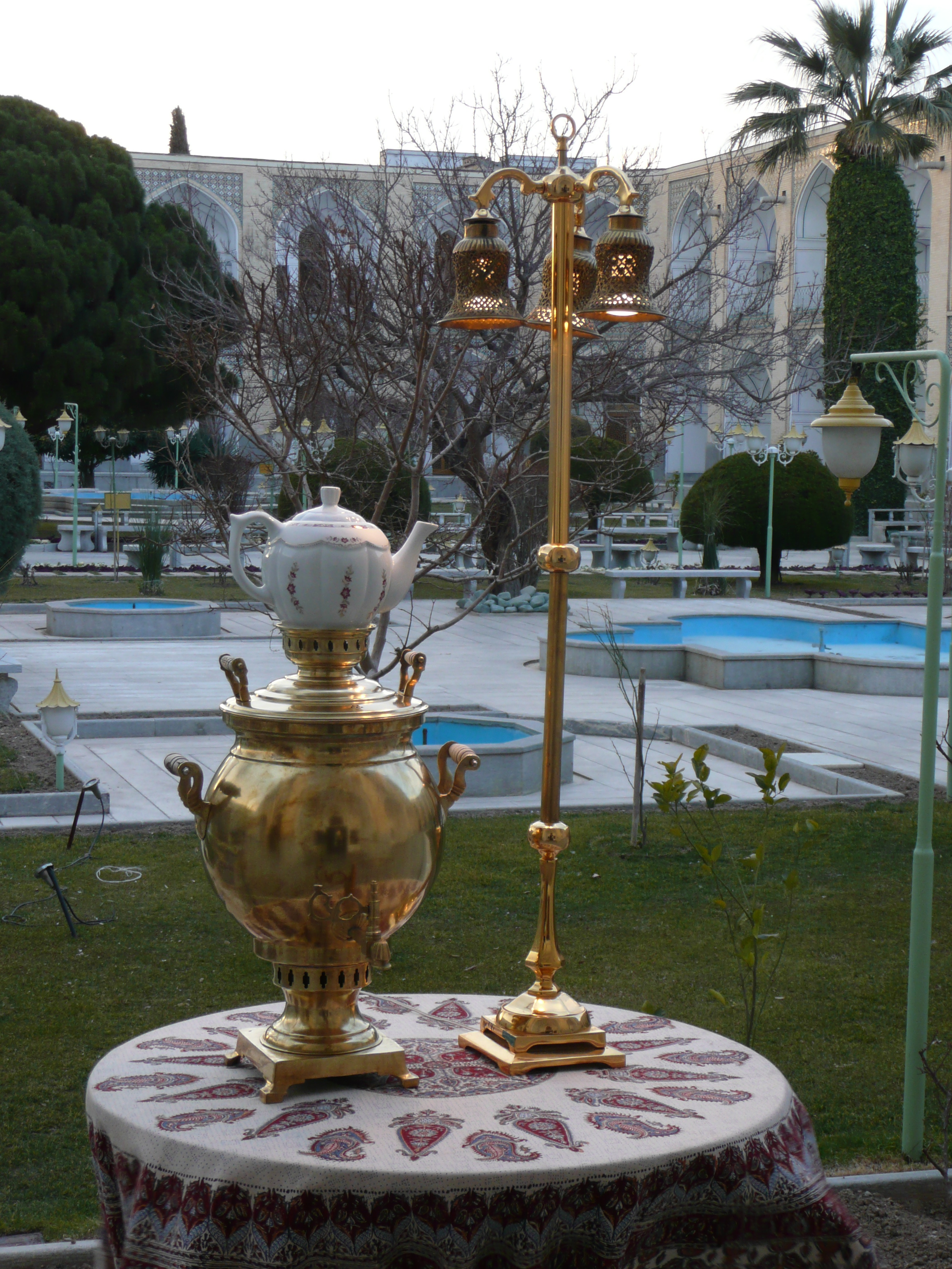 Photographs from Isfahan, Iran